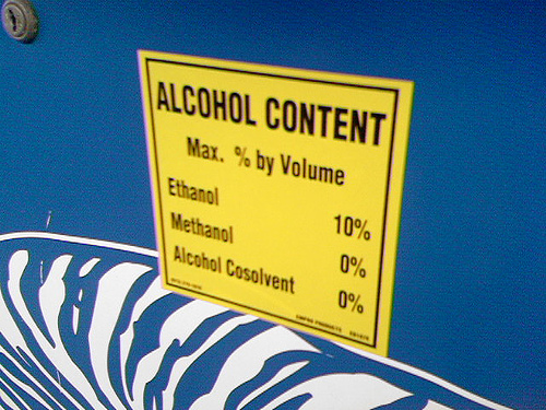 Label indicating the ethanol content (10%) at a gasoline pump